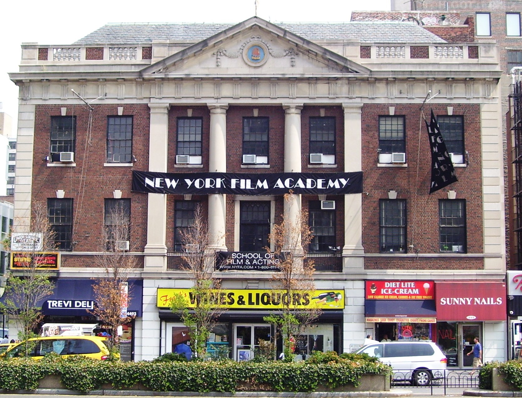 Tammany Hall Building at Park Avenue South and 17th Street, now used as a theatre and film school, as seen from Union Square, Manhattan, New York City.